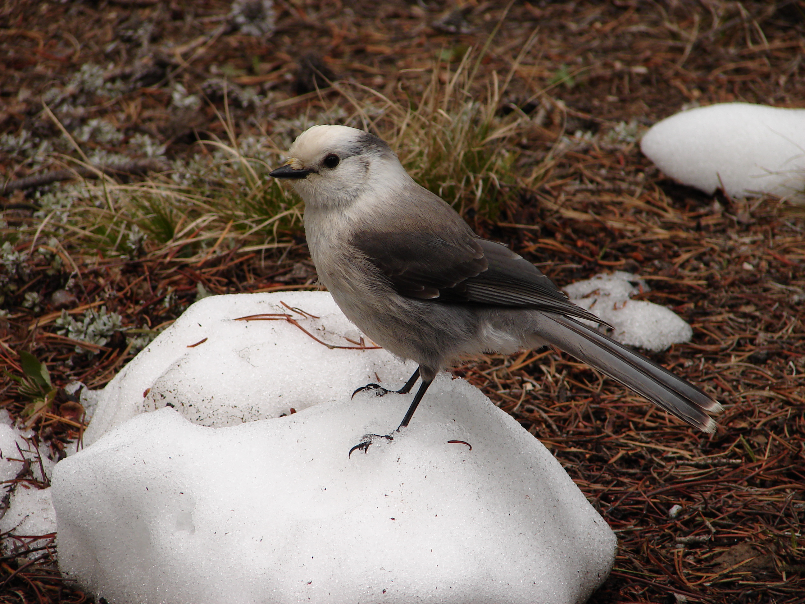 Gray Jay (P.c.capitalis), Yellowstone NP, USA, 04.June 2008